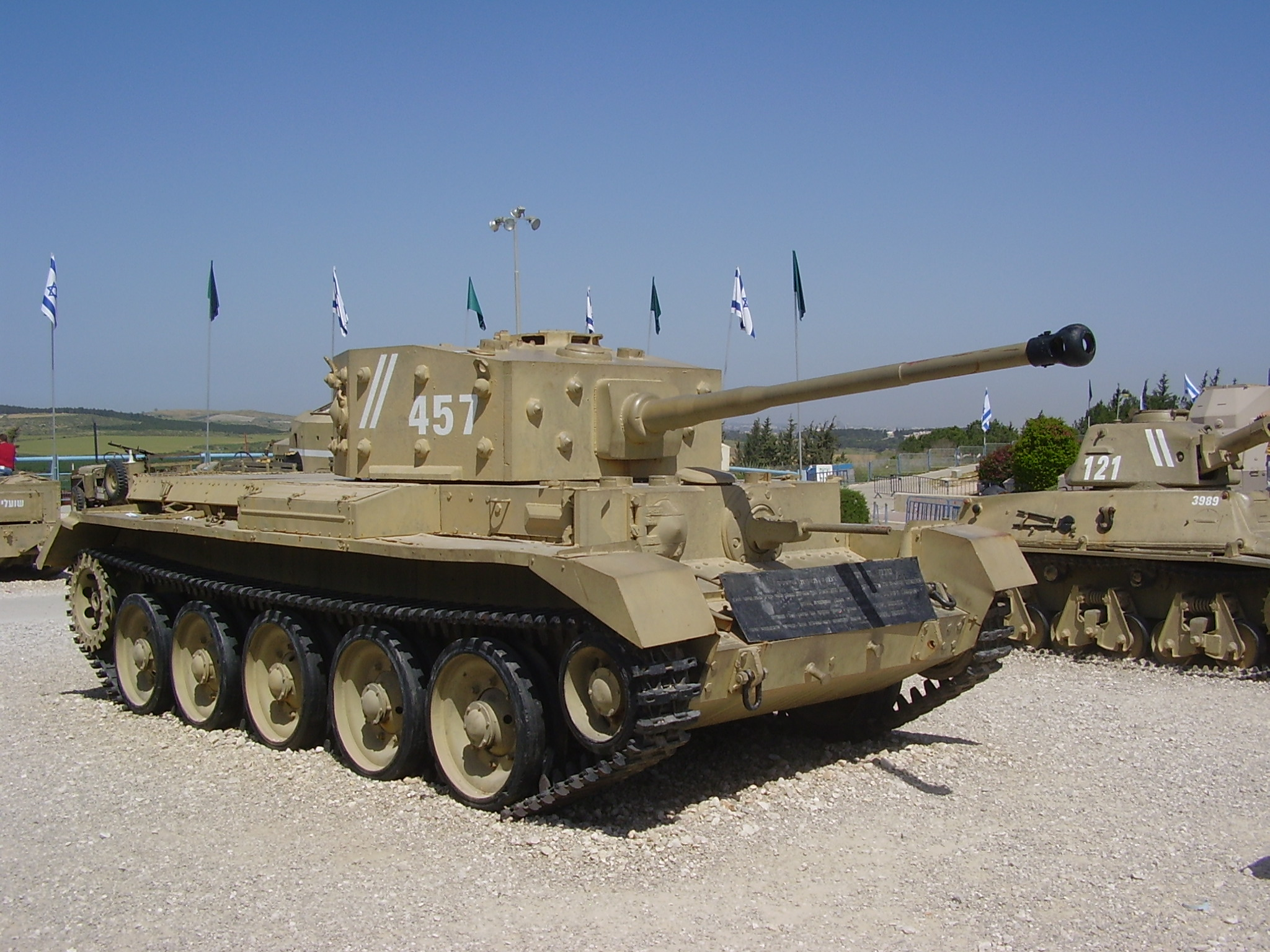 Cromwell tank in Armored corps museum, Latrun, Israel